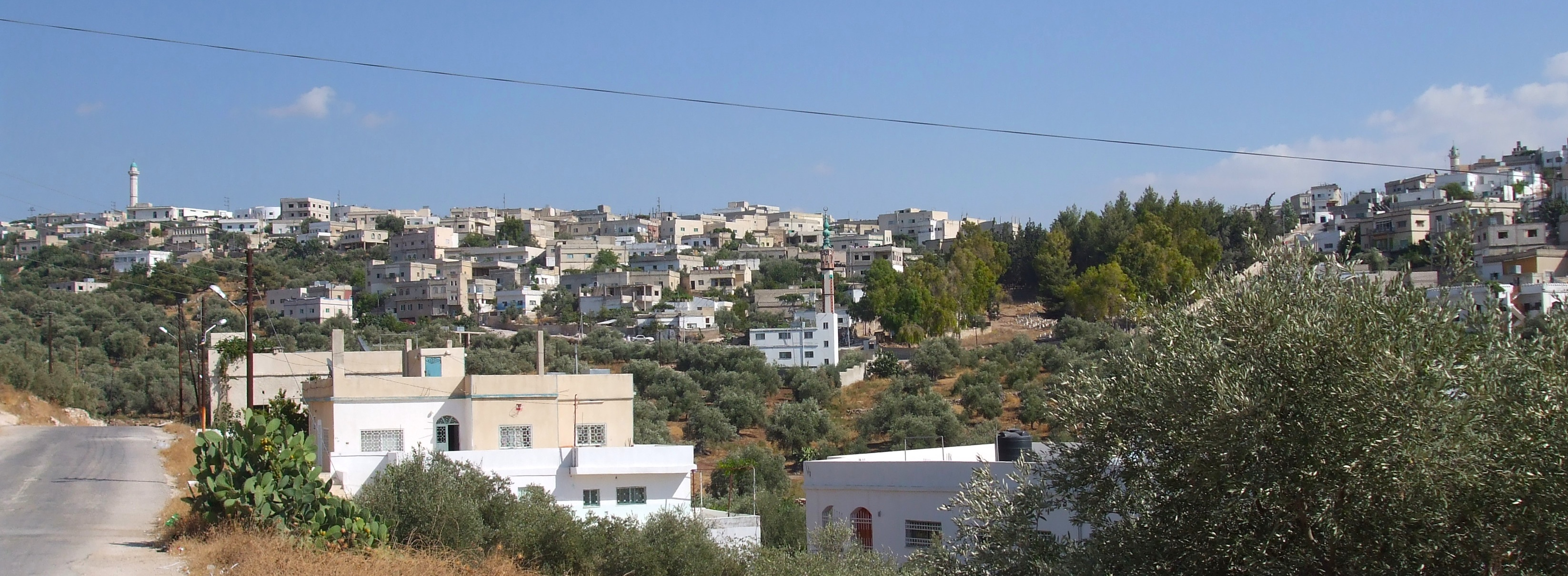 This is a view of Hashimiyya, Ajloun, Jordan from the Ras Al Kalail forest.